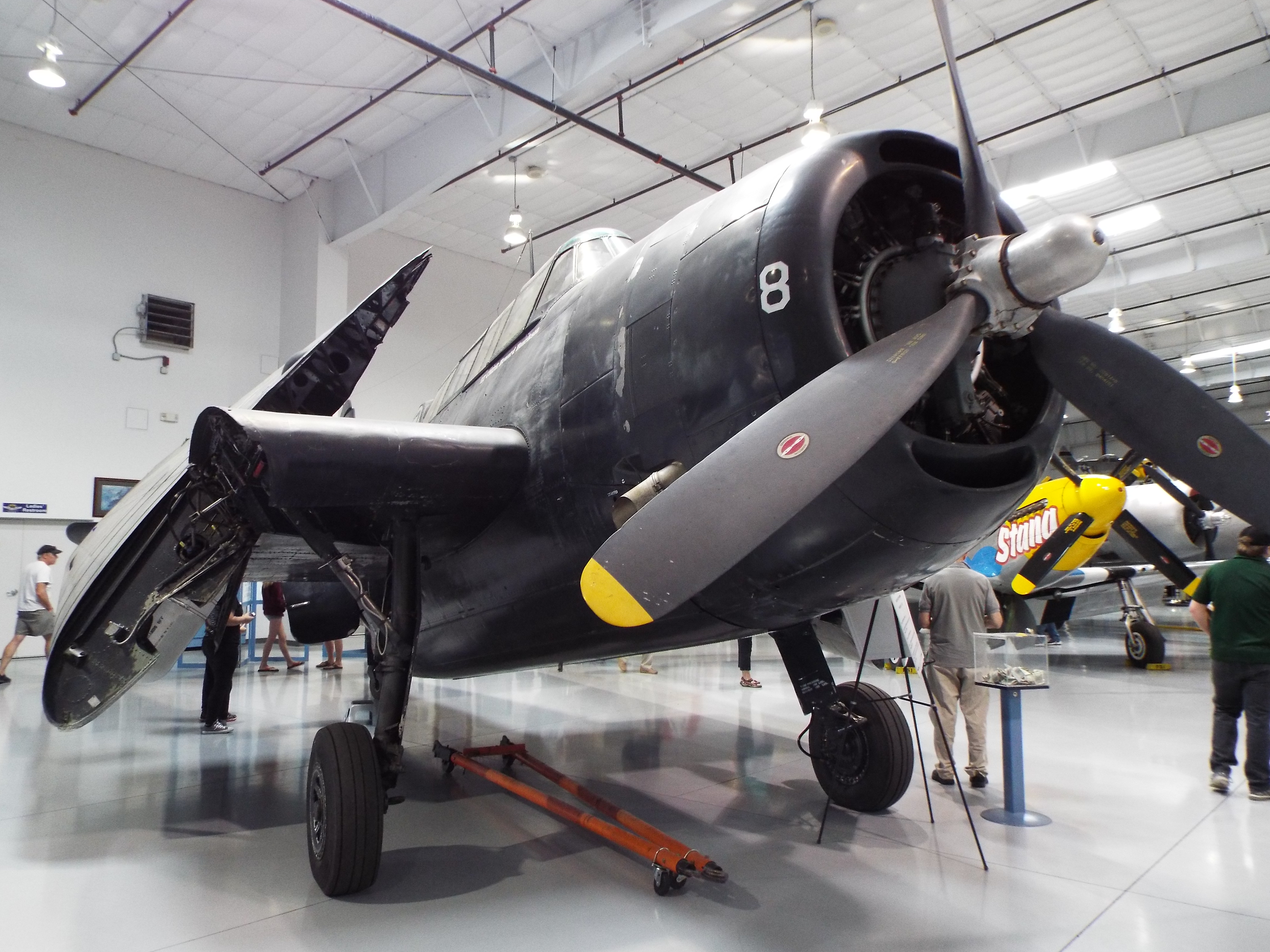 Mesa Arizona Commemorative Air Force Museum-Grumman TBF Avenger – World War 2 Torpedo Bomber on display